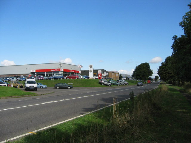 Spittlegate Level, Grantham, Lincolnshire. Motorists' Paradise! Along this section of the old Great North Road leading into Grantham are at least four main dealers.